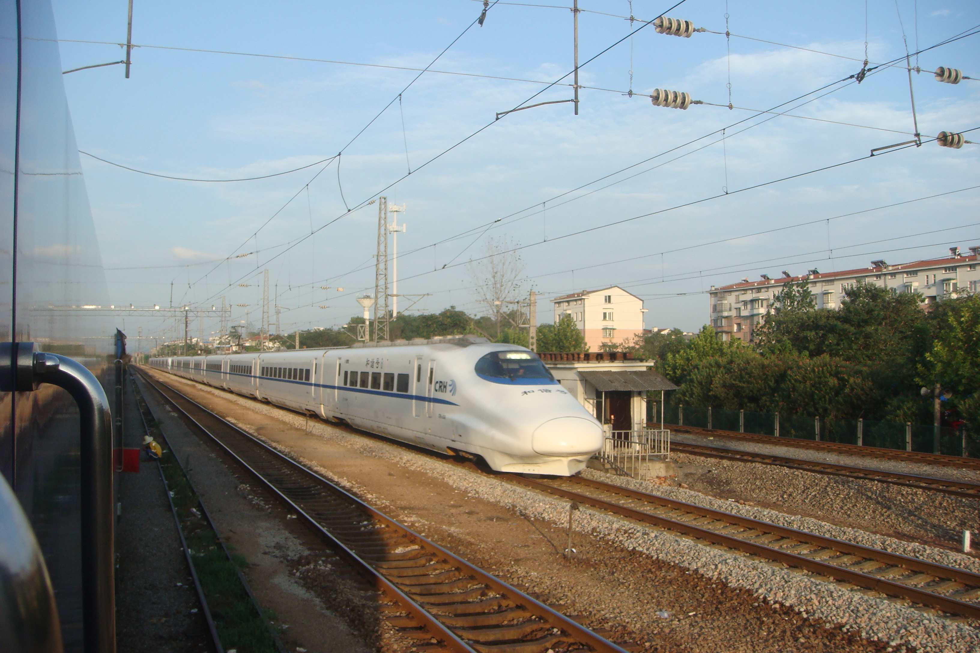 201308 D91 passes Jinhuadong Station